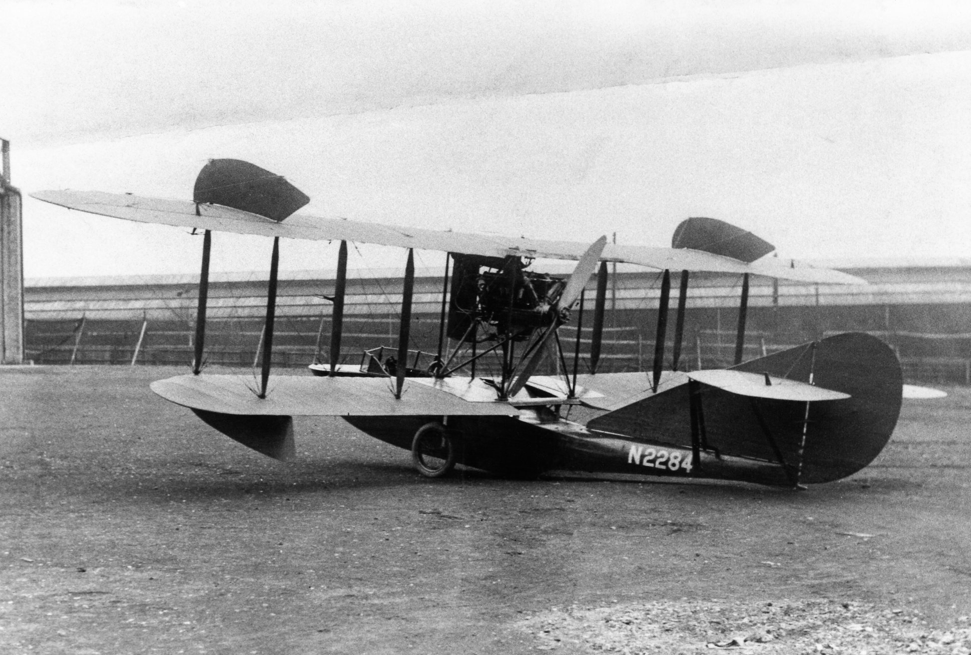 Photograph of Norman Thompson N.T.2B (N2284).